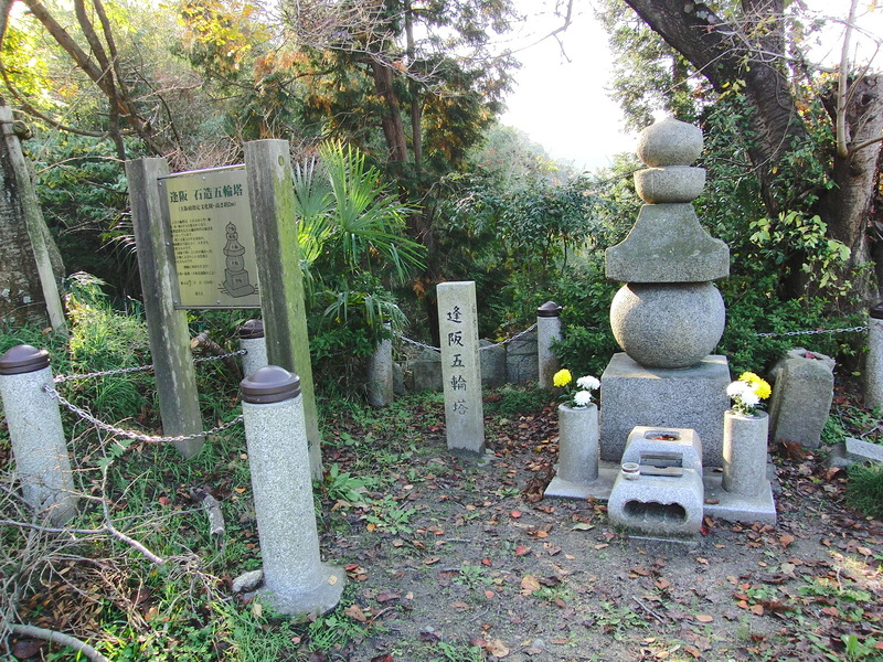 Ousaka Gorintou (1336) (Kiyotaki pass, Osaka, Japan)